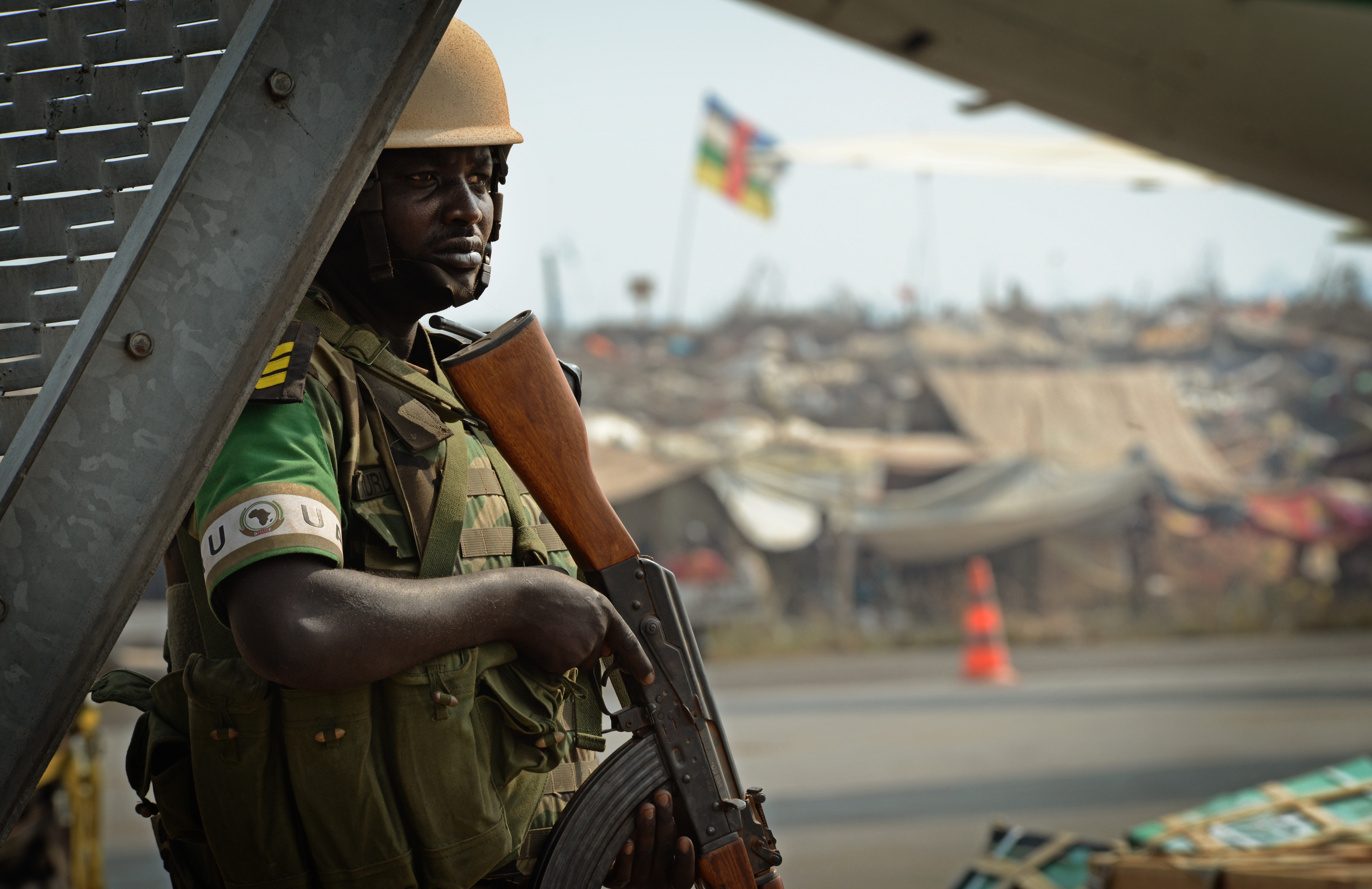 A Rwandan soldier stands guard at an airfield near a refugee camp full of displaced citizens at Bangui M'Poko International Airport in the Central African Republic Jan. 19, 2014. U.S. forces were dispatched to provide airlift assistance to multinational troops in support of an African Union effort to quell violence in the Central African Republic.